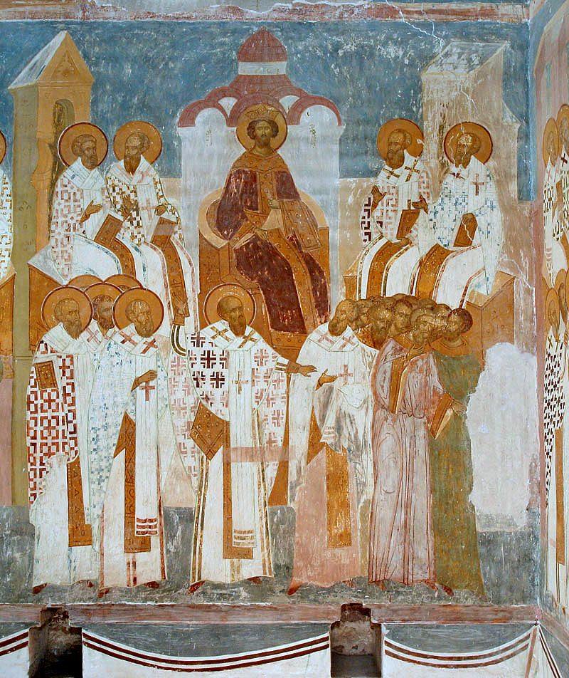 Anathamatization of Nestorius at the Third Ecumenical Council. A fresco by Dionsysius. 1502